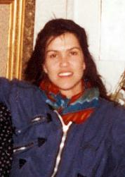 Petra Nielsen, as released by image creator Lars Jacob ProdPlace: Baggensgatan, Stockholm, Sweden